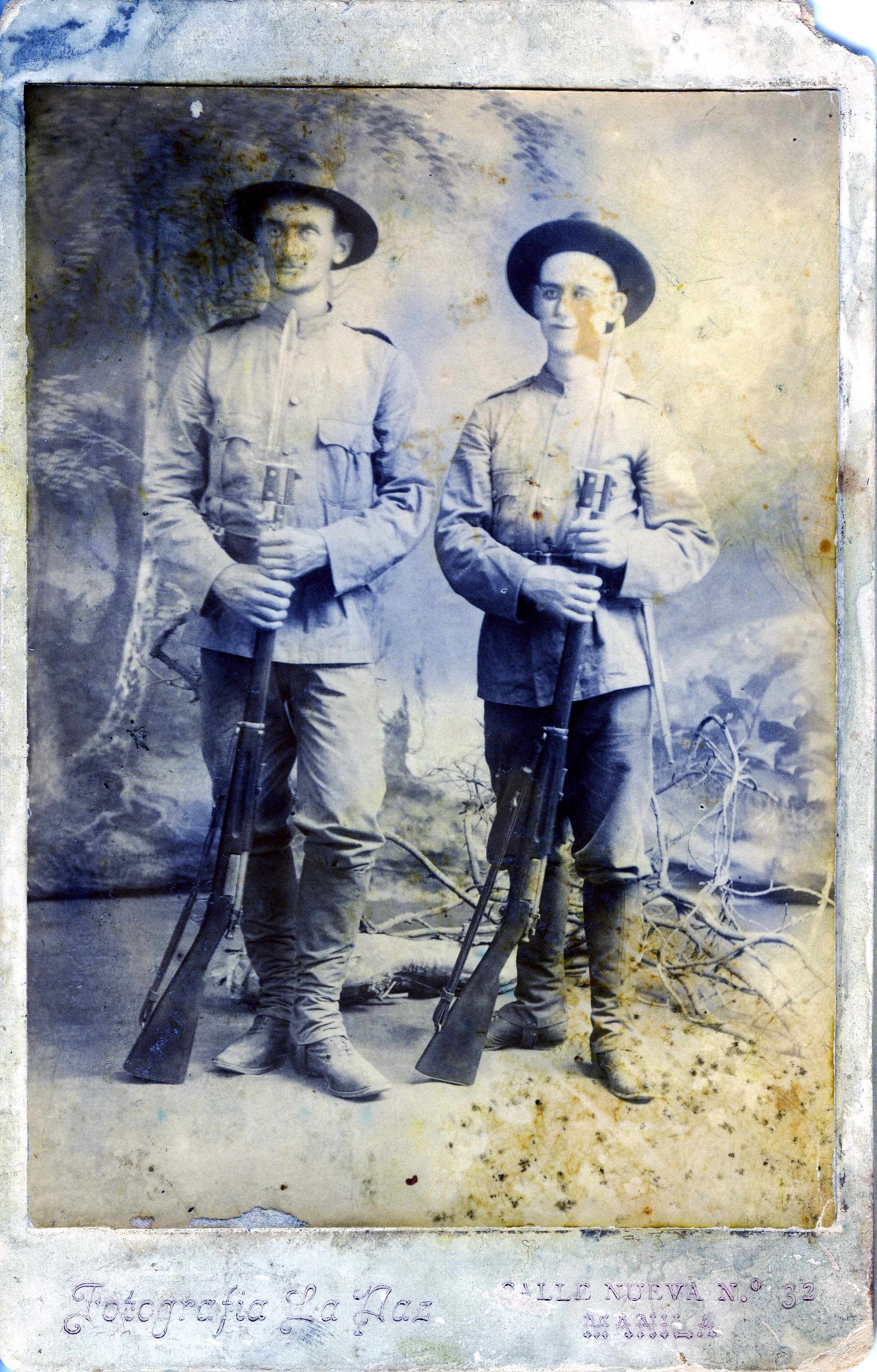 Picture of Edward E. Lyon and Marcus W. Robertson taken in Manila, Philippines during the Philippine-American War. Edward Lyons, left, Marcus W. Robertson, right